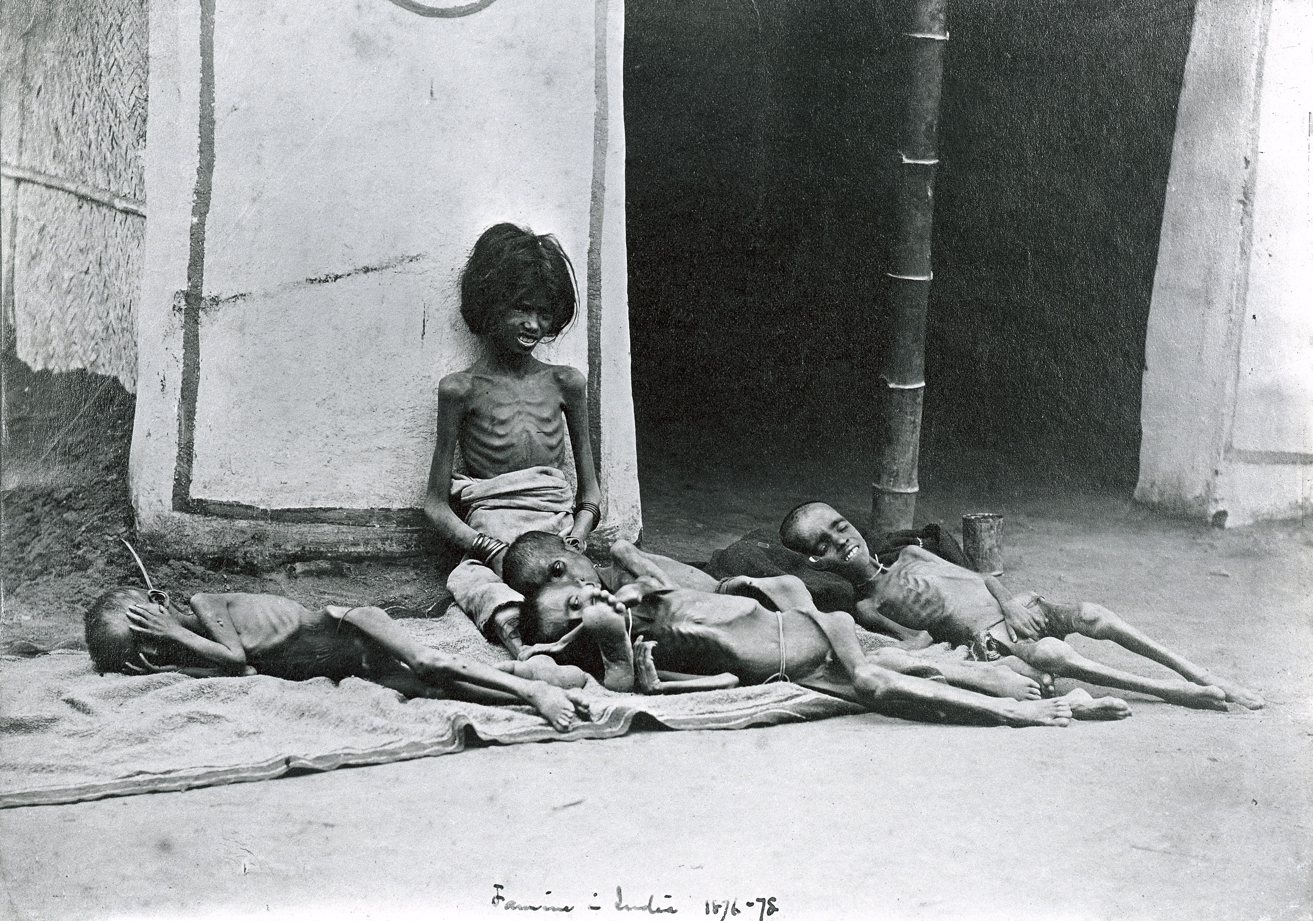 Famine in India: five emaciated children; a girl sitting and four boys lying on a mat. Photograph, 1876/1878. Iconographic Collections Keywords: starvation, india